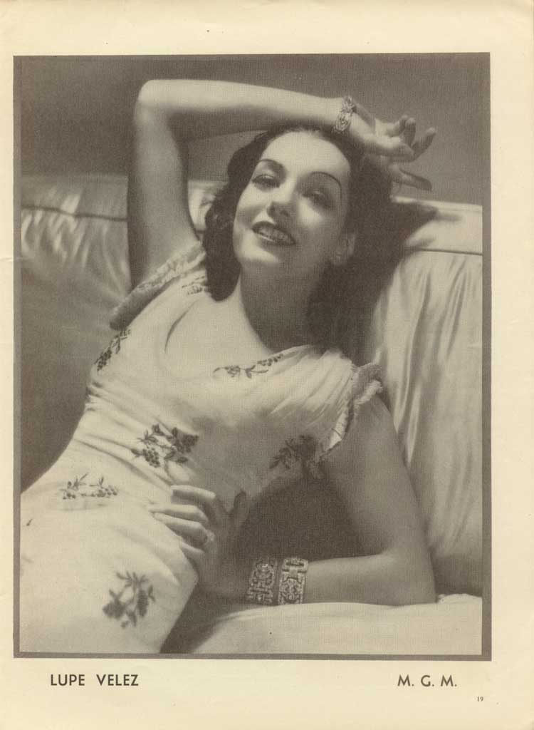 Publicity photo of Lupe Velez for Argentinean Magazine. (Printed in USA)